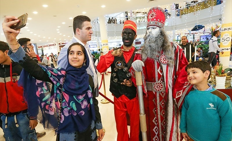 Nowruz 2018 in shops and malls of Kish